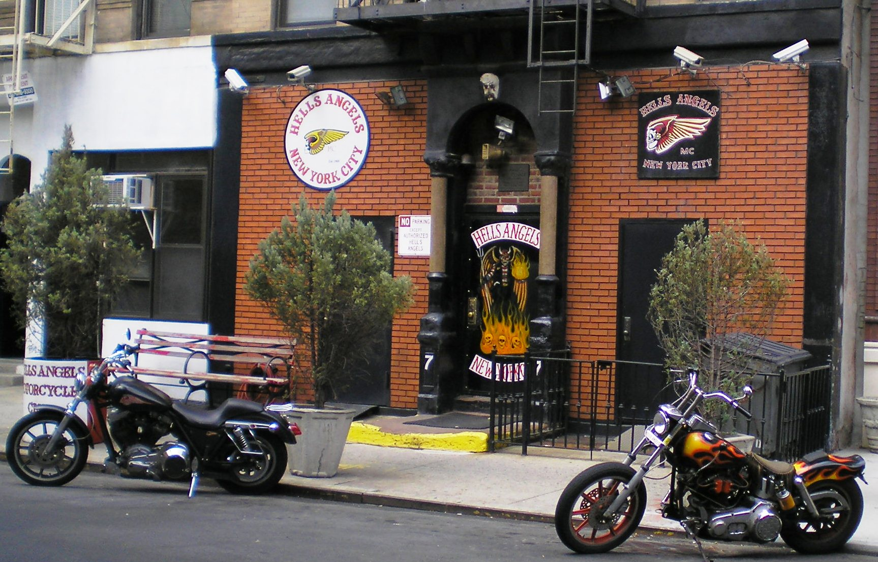 Hell's Angels New York by David Shankbone